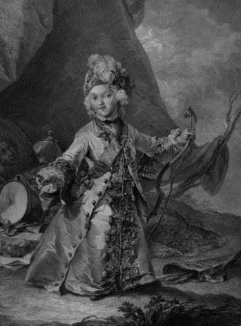 Christian VII as childNorsk bokmål: Tittel:Christianus Princeps Daniae et Norvegiae Haeres. Christian VII som barn på et kobberstikk av Preisler, J. M. etter C.G. Pilos maleri.